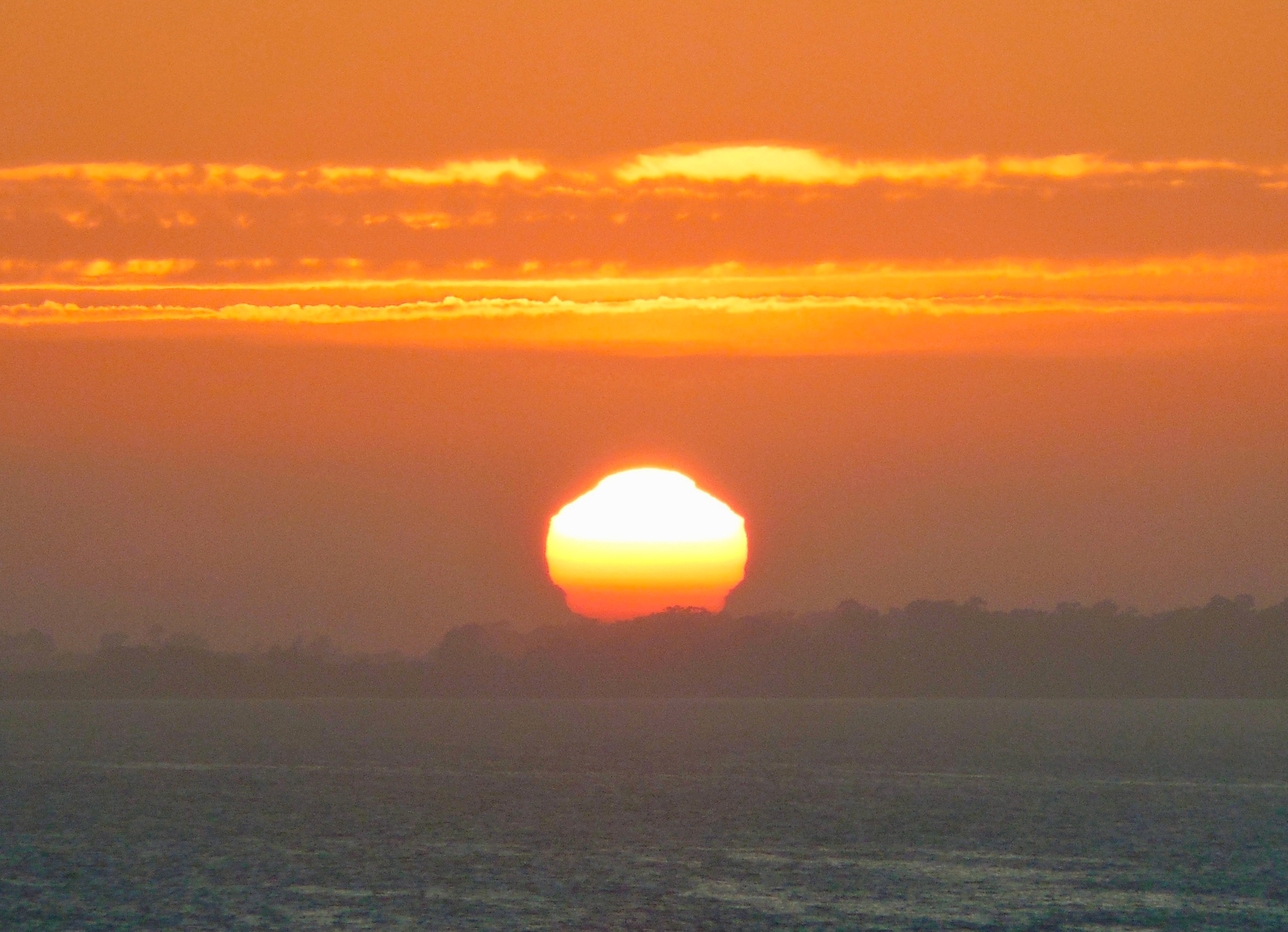 Atmospheric Refraction effect during sunset from the Douglas Family Preserve (looking toward the UCSB campus), Santa Barbara, California, September 2017.